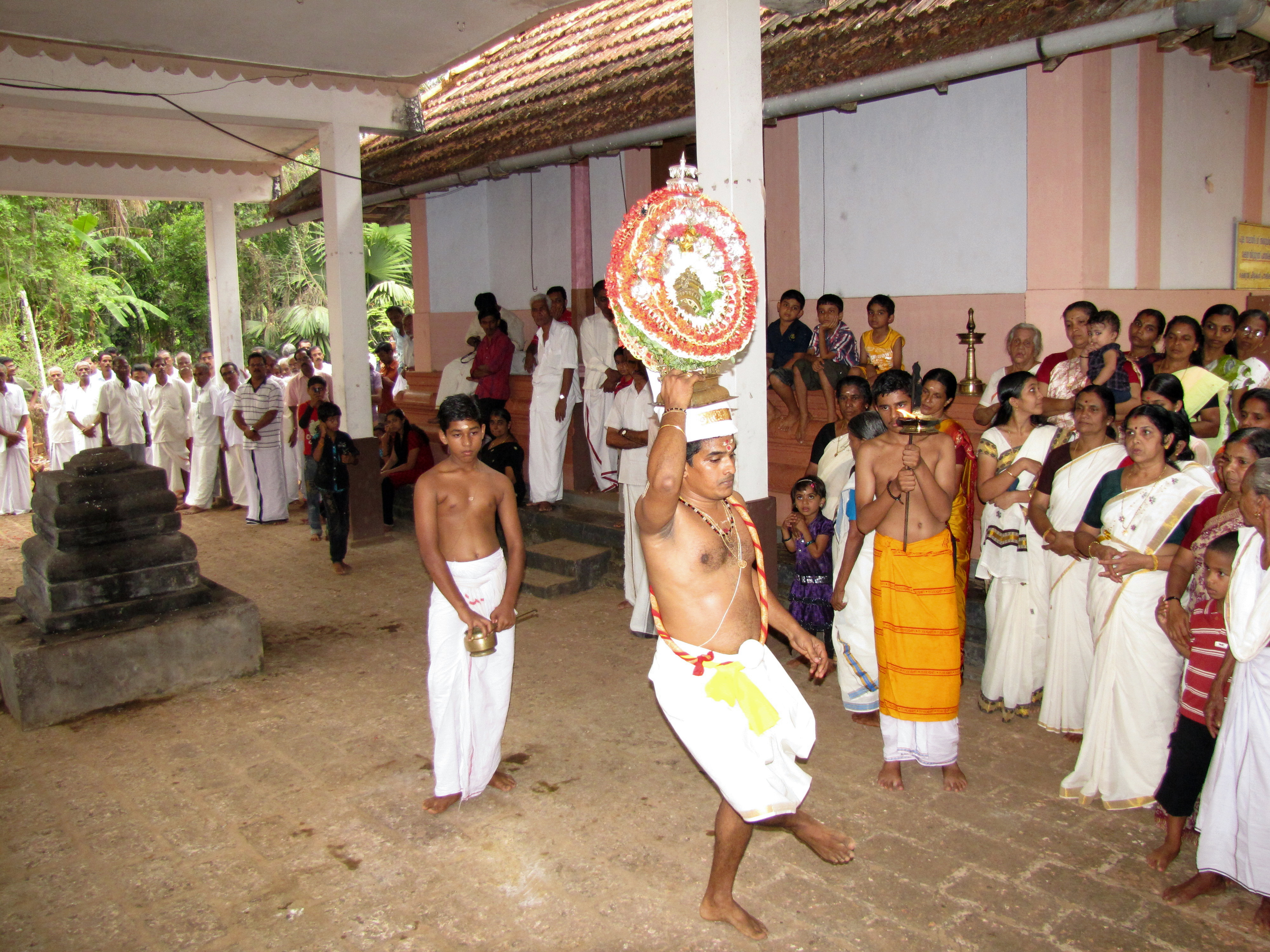 Thitambu Nritham